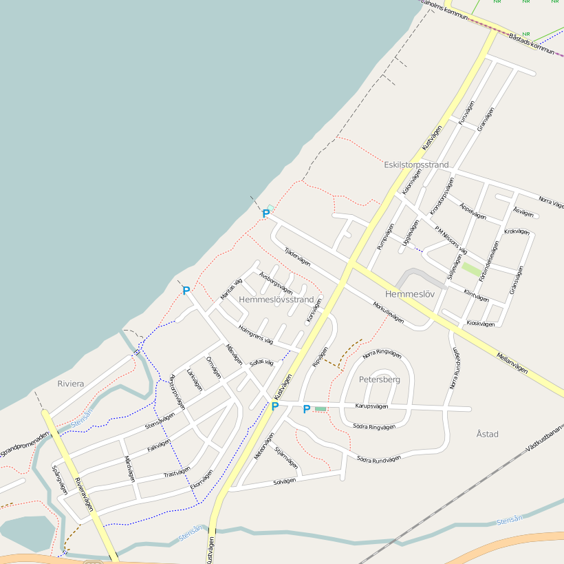 Map of Hemmeslöv